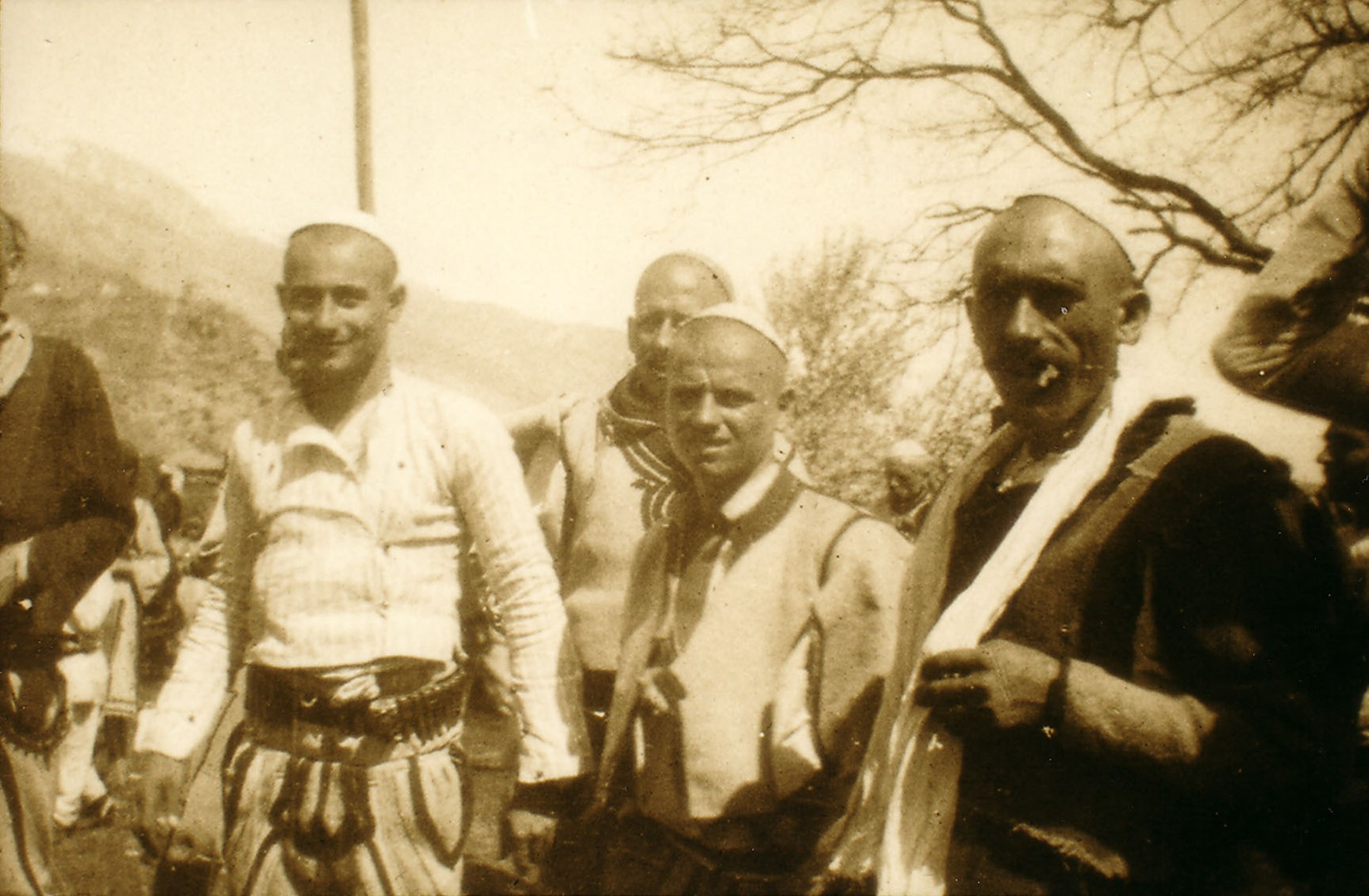 250 Albania. Men of Raja. Mërturi in the Drin valley of the District of Tropoja